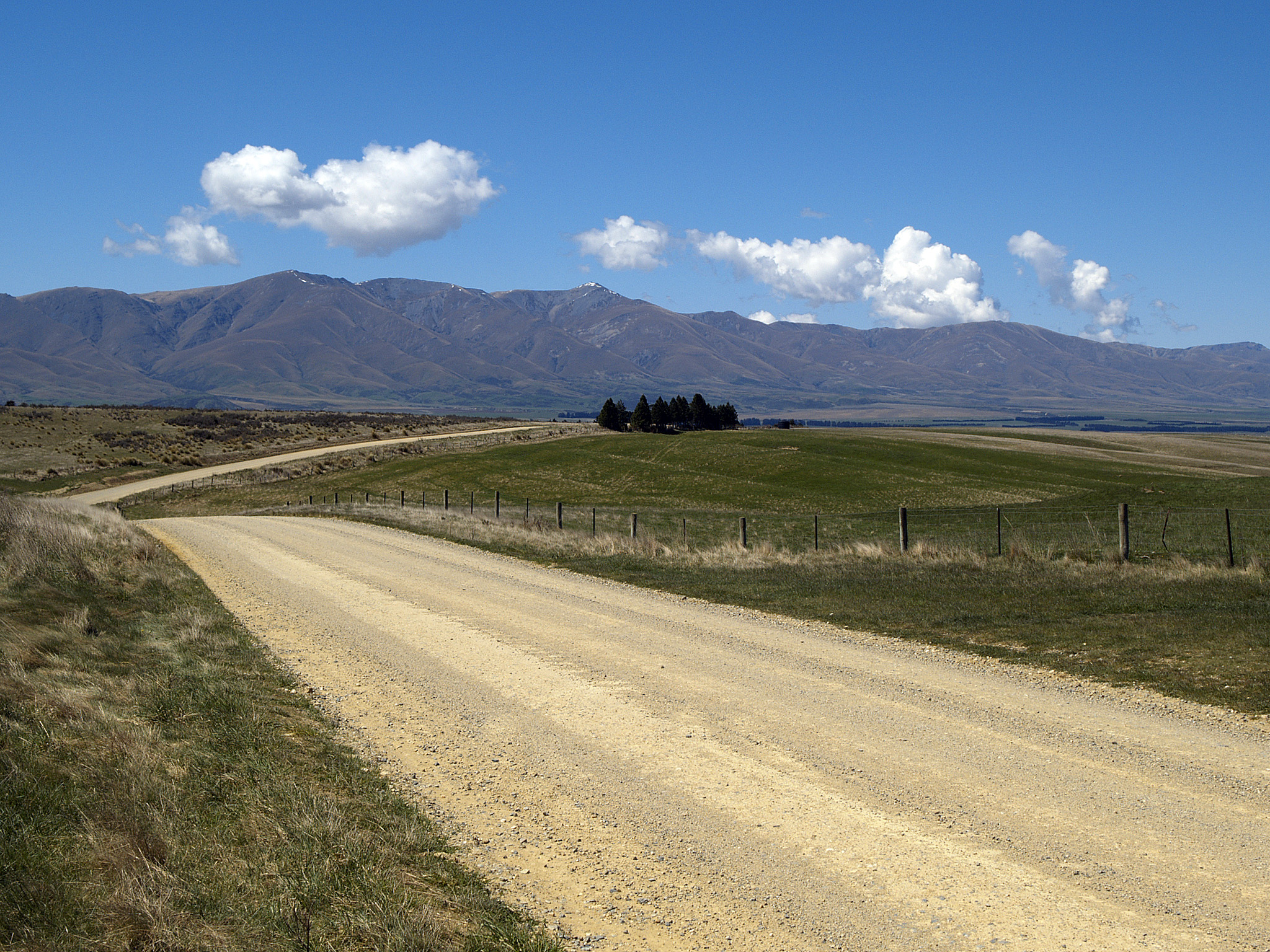 Kakanui Mountains, Otago, New Zealand, close to Naseby and view from west side